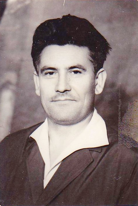 portret